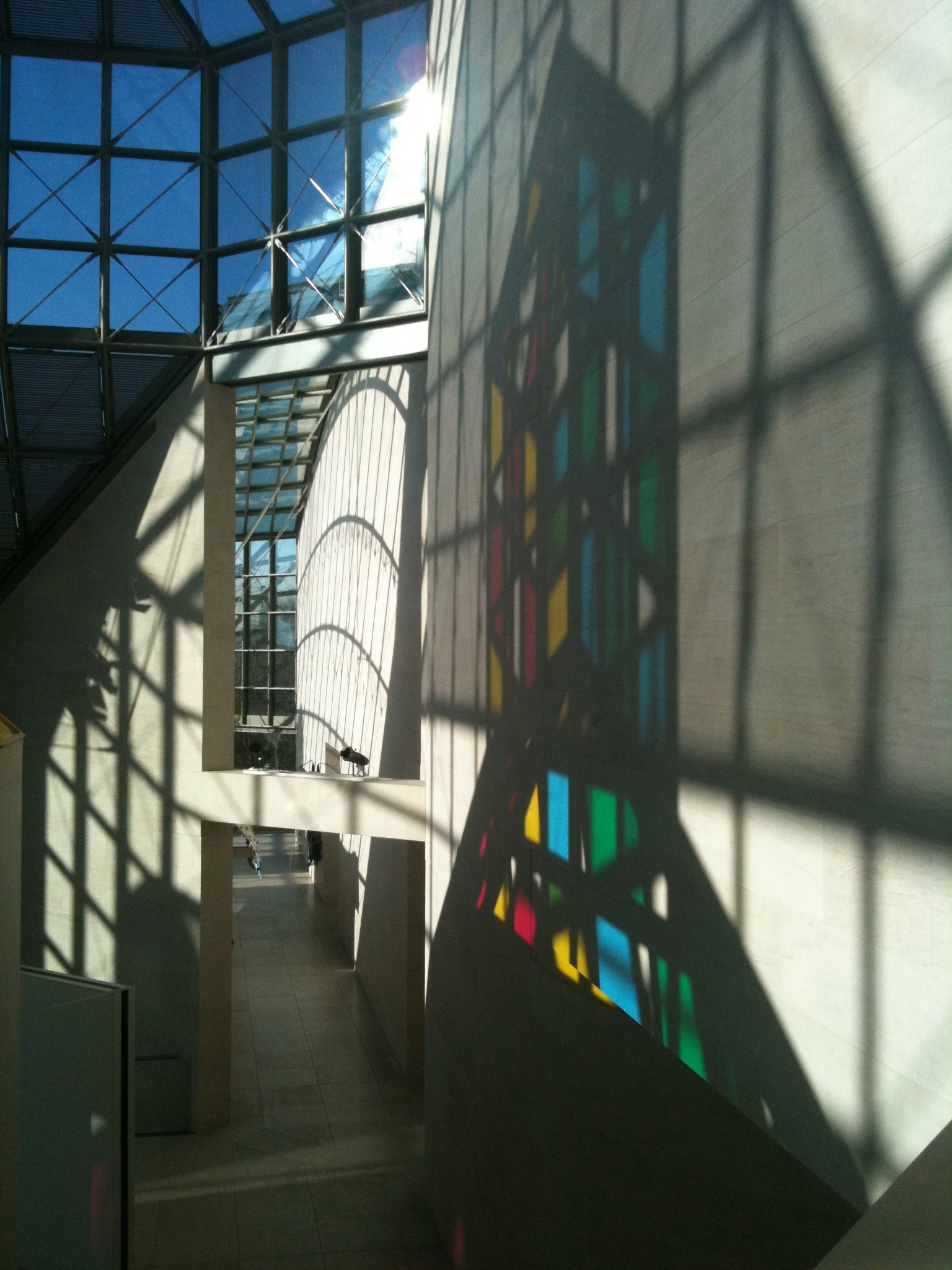 Museum of modern art in Luxembourg City